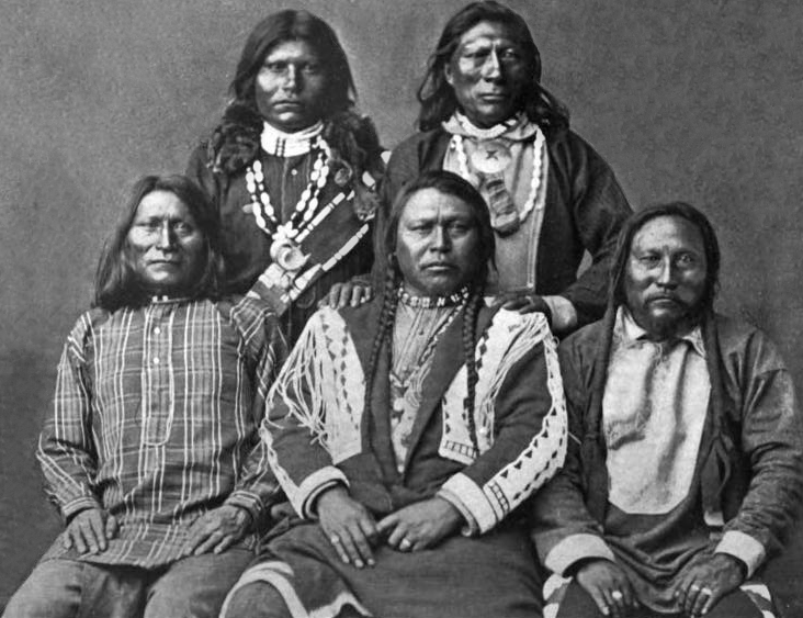 Shoshone group American Indian Mongoloid